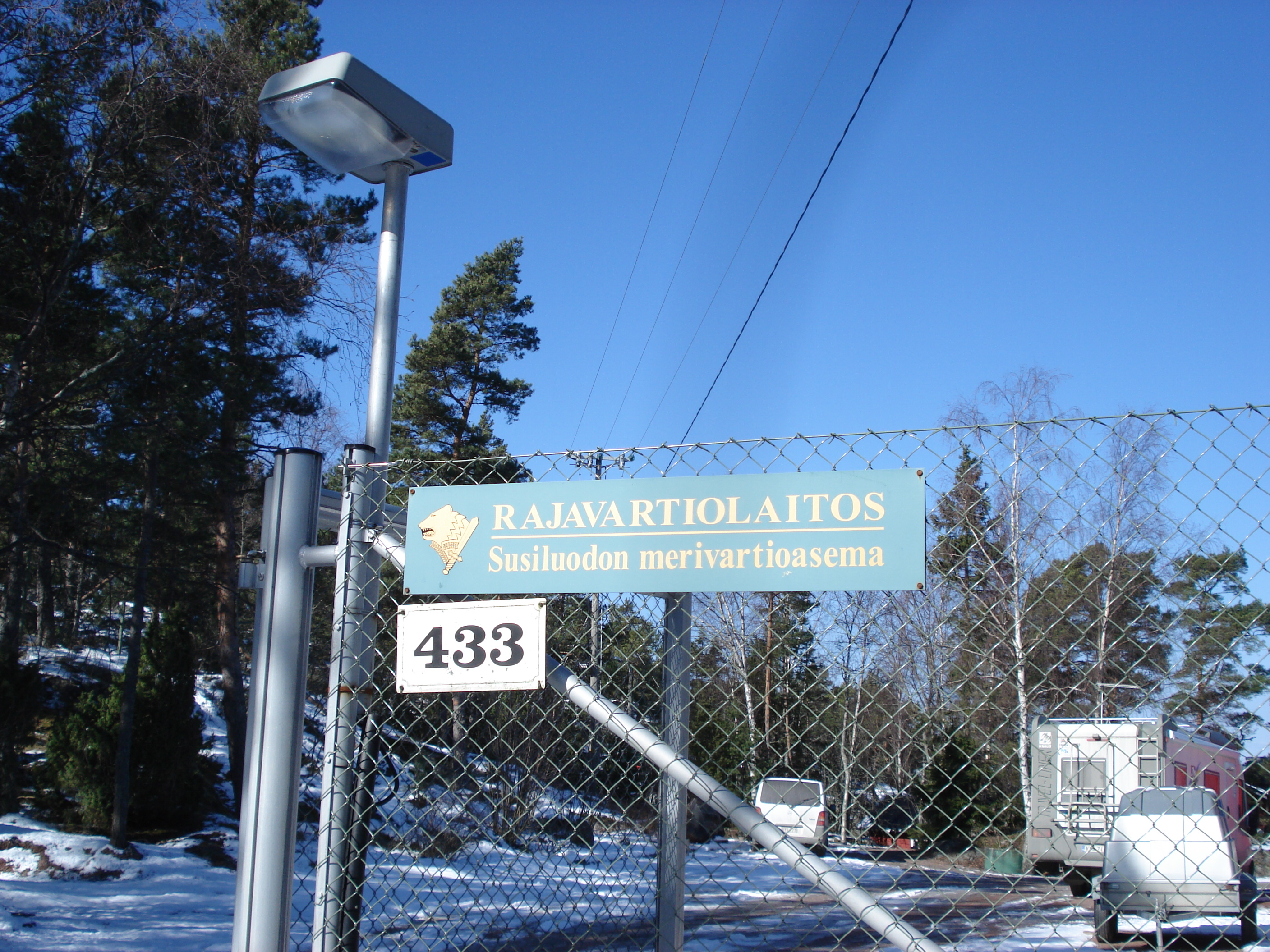 Susiluoto Coast Guard Station entrance in Kustavi, Finland.